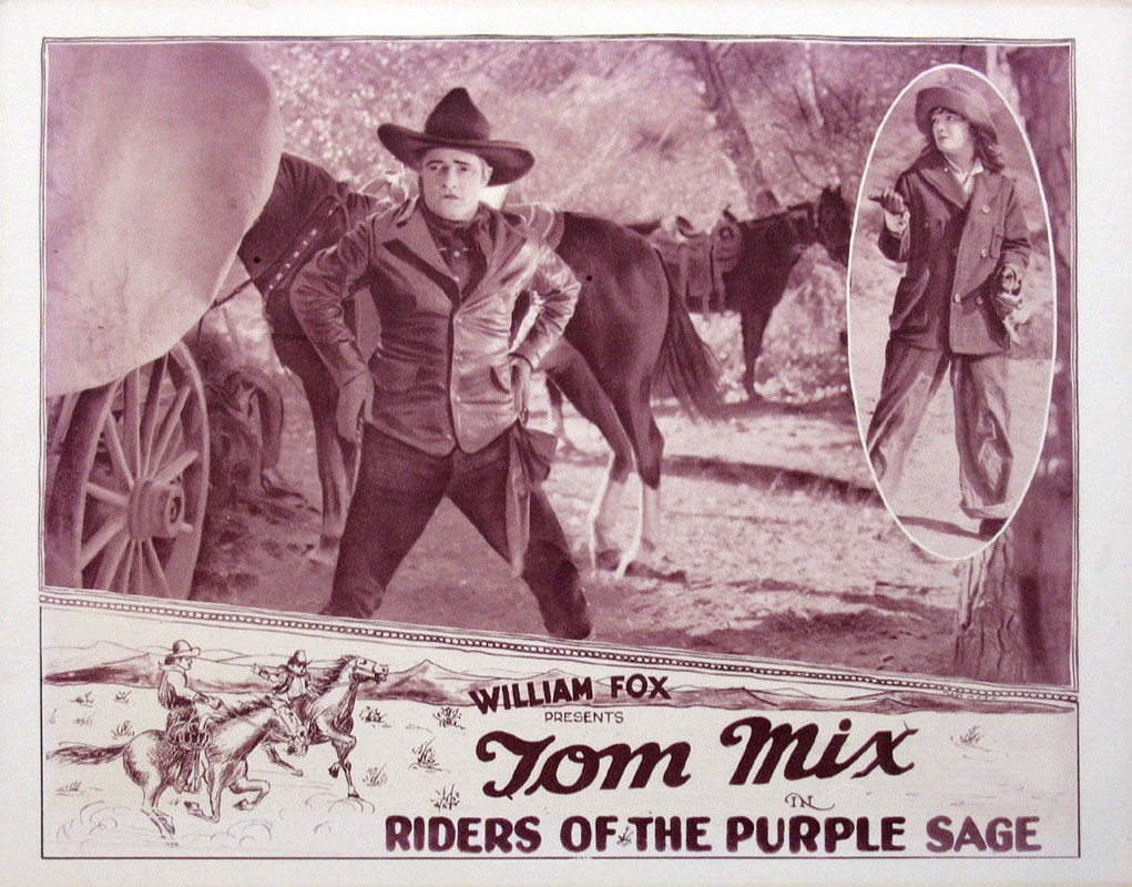 Lobby card for the American western film Riders of the Purple Sage (1925).